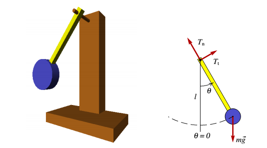 Pêndulo não linear